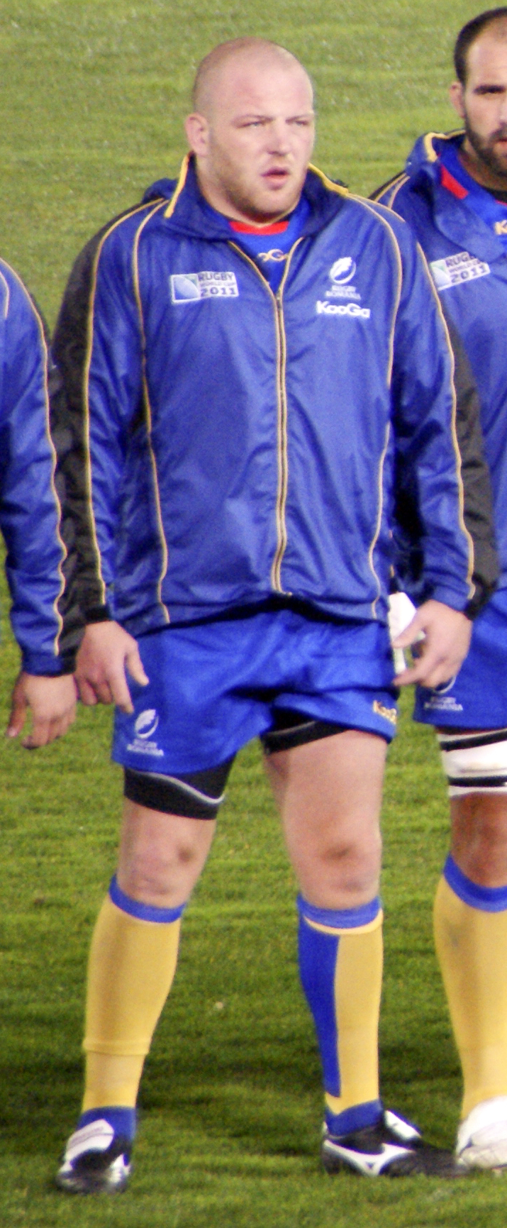 Romanian rugby union player Mihaita Lazăr during 2011 Rugby World Cup against Georgia.